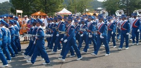 A cropped photo of the University of Florida Marching Band